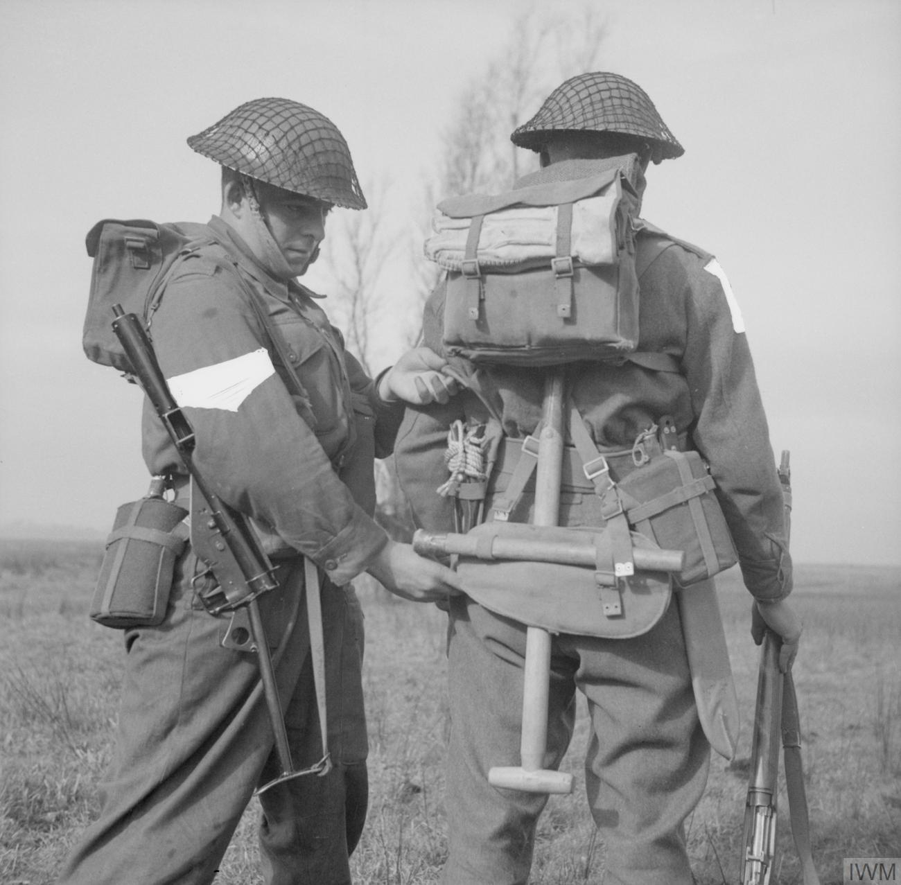 The British Army in the United Kingdom 1939-45 Two soldiers demonstrate standard 1937-pattern webbing and equipment, March 1944. They are armed with Sten gun and No. 4 Rifle.